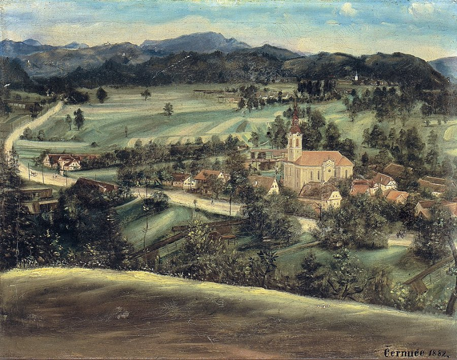 Črnuče veduta from 1882.